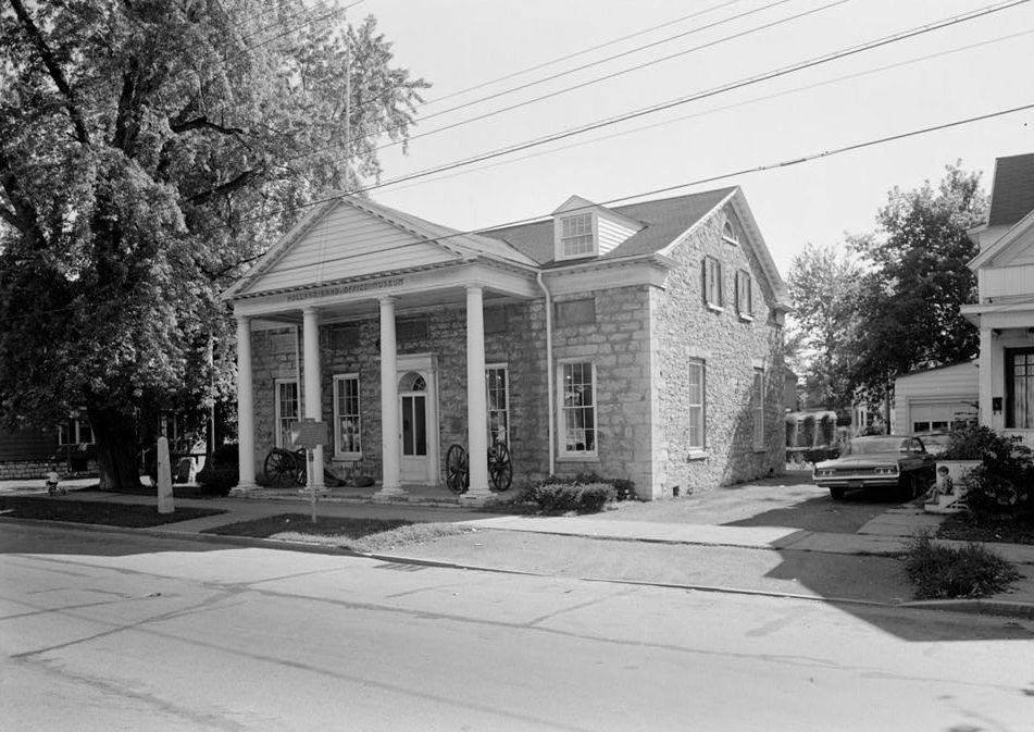 Holland Land Office, West Main Street, Batavia, Genesee County, NY.((-)) HABS color transparency, then cropped.